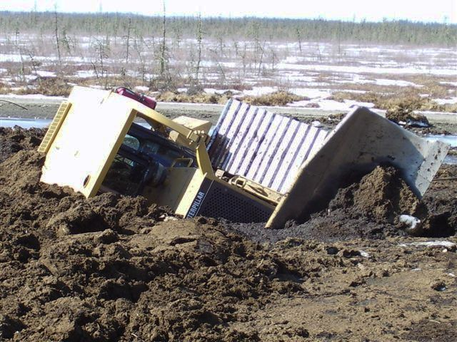 D6 Caterpillar that broke through muskeg in spring thaw. Located near Wabasca, Alberta.